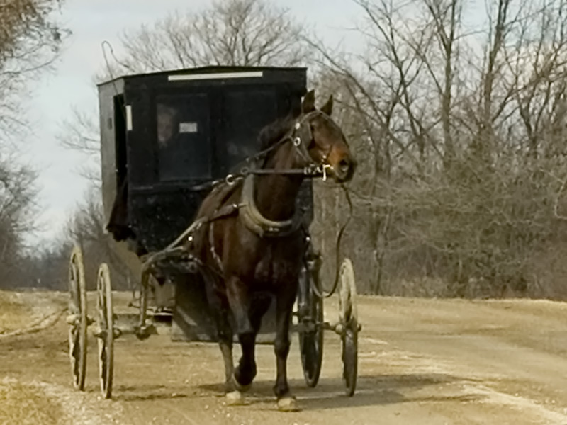 Photograph of an old order Mennonite, horse and carriage in Oxford County, Ontario Canada at Pigram and Ebenezer Road.